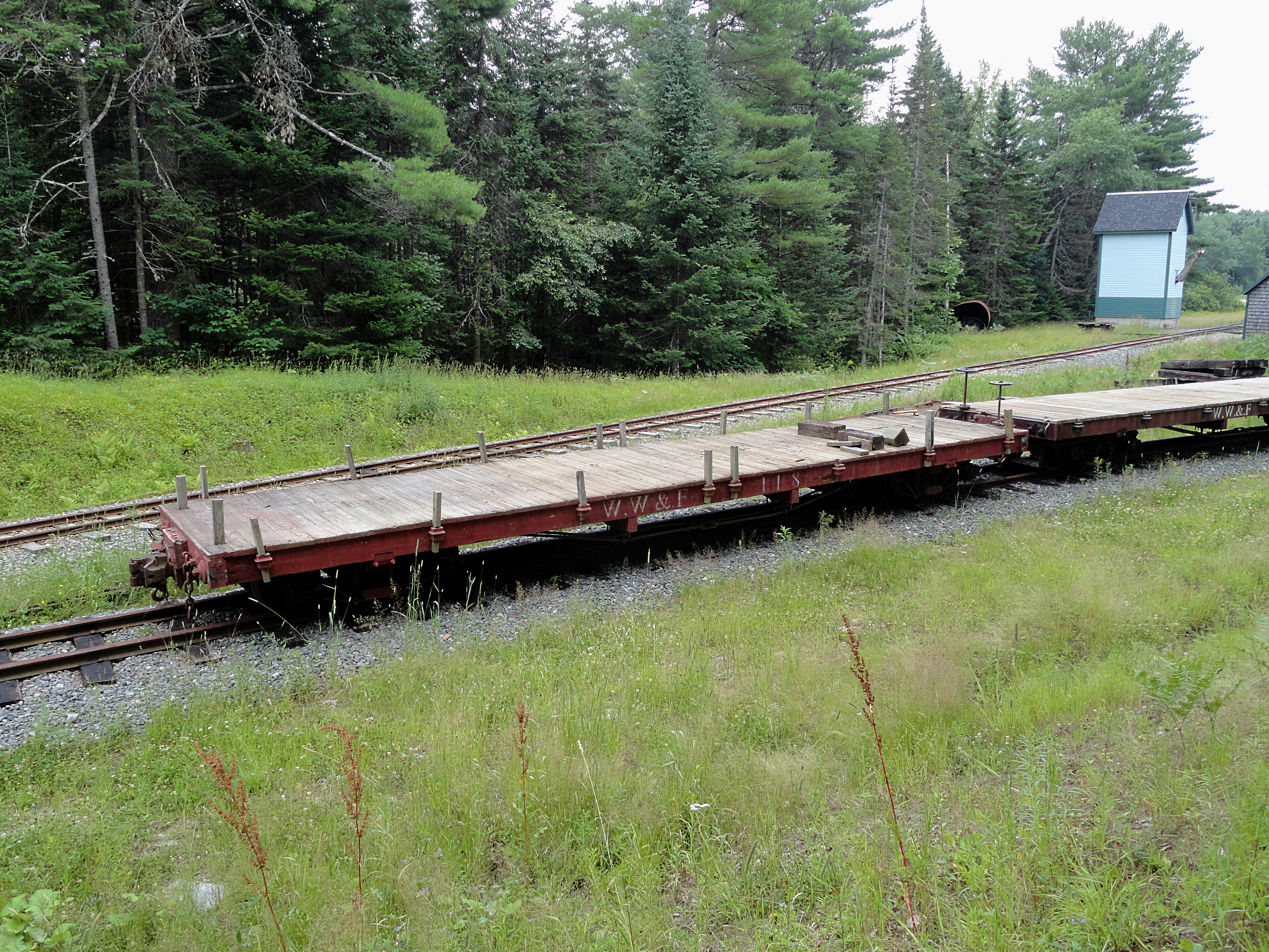 View of flatcar no. 118 of the Wiscasset, Waterville and Farmington Railway, the last original surviving flatcar of the railway. Built in 1912 by the Portland Company. To the right is WW&F flatcar no. 126, a replica based on no. 118. Seen at the WW&F Railway Museum, Alna, Maine.